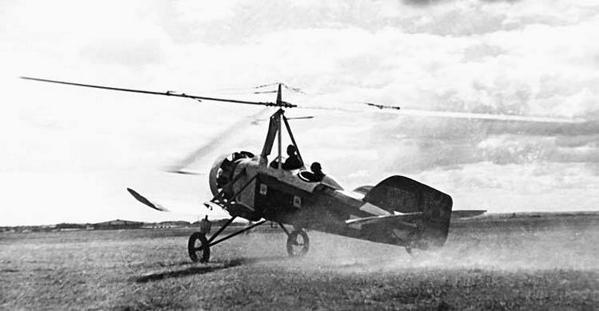 TsAGI A-4